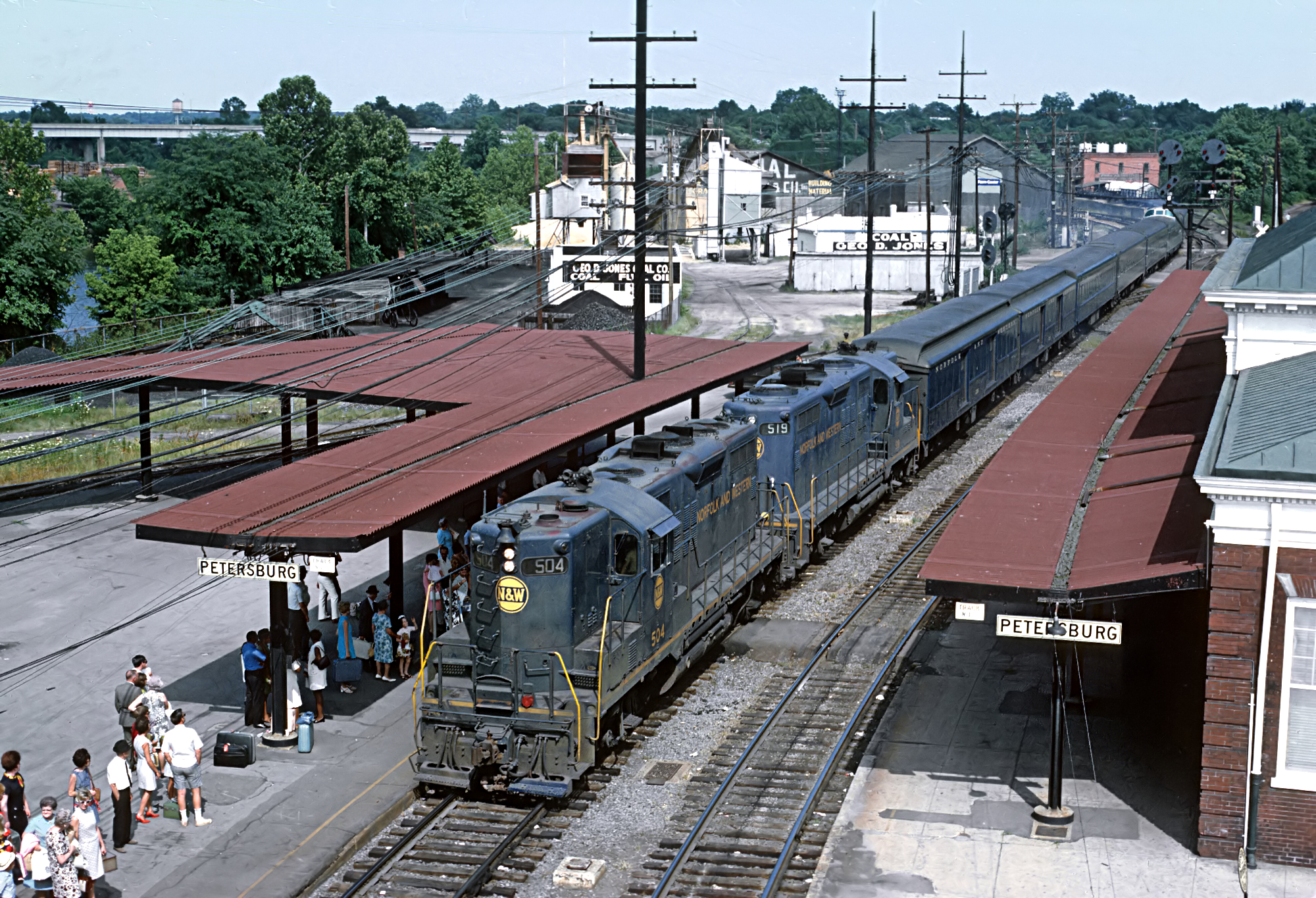 Norfolk and Western GP9 locomotives #504 and #519 haul train #3, the Pocahantas, into Petersburg, Virginia in June 1970